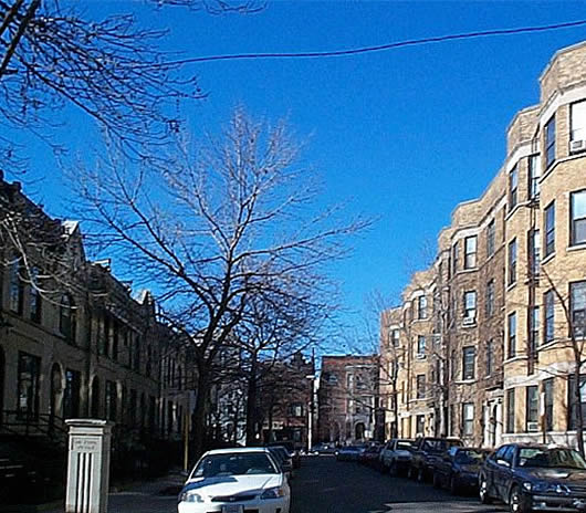 This 1880s block-long planned community maintains a remarkable degree of unity. Although the Old surrounding neighborhood has well more than its share of party walls, few of its streets were built by a single hand -- and the others were built a century hence, by which point architecture had declined considerably as an art. Its beguiling intimacy is deceiving: neighboring streets are narrower still, but have lower buildings, fewer trees, and even smaller front yards. AIA Guide gives dates as 1885 (rowhouses) to 1895 (apartments), with the buildings facing Wells and North Park arriving in between. Developer and dad Daniel F. Crilly named the apartment houses after his children, with their then-trendy names: Isabelle, Oliver, Edgar, and Erminie.